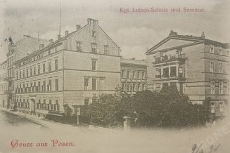 Luisenschule, Posen, early 20th c.